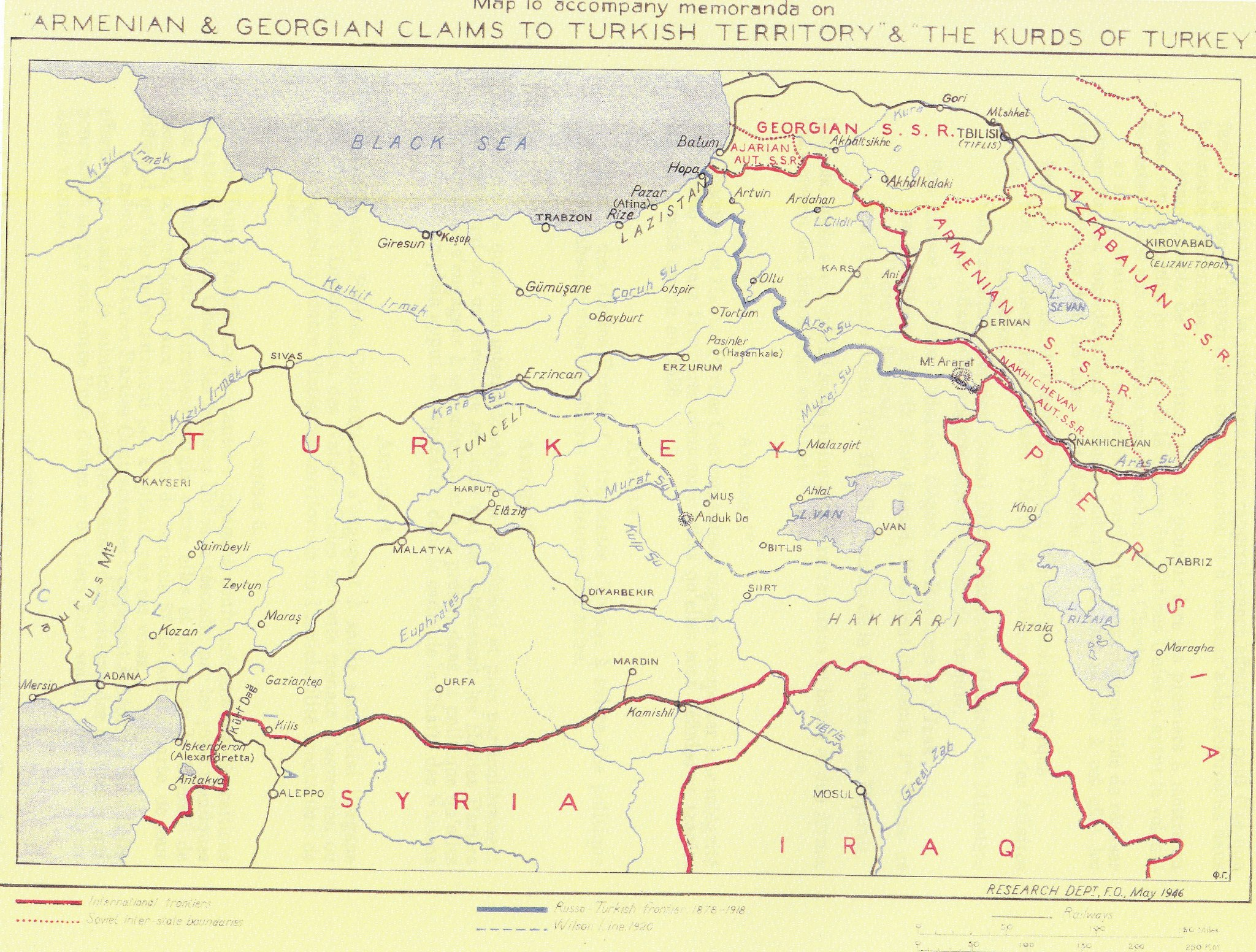 "The Georgia's contribution to the Soviet war effort, both in the field and in production, has been constantly extolled in the Soviet press. But before the end of 1945 there was no suggestion that the Georgians needed or desired any Turkish territory. Lazistan was never an irredenta for them. Nor can it be claimed that the Western Powers have broken any pledges to the Georgians. "